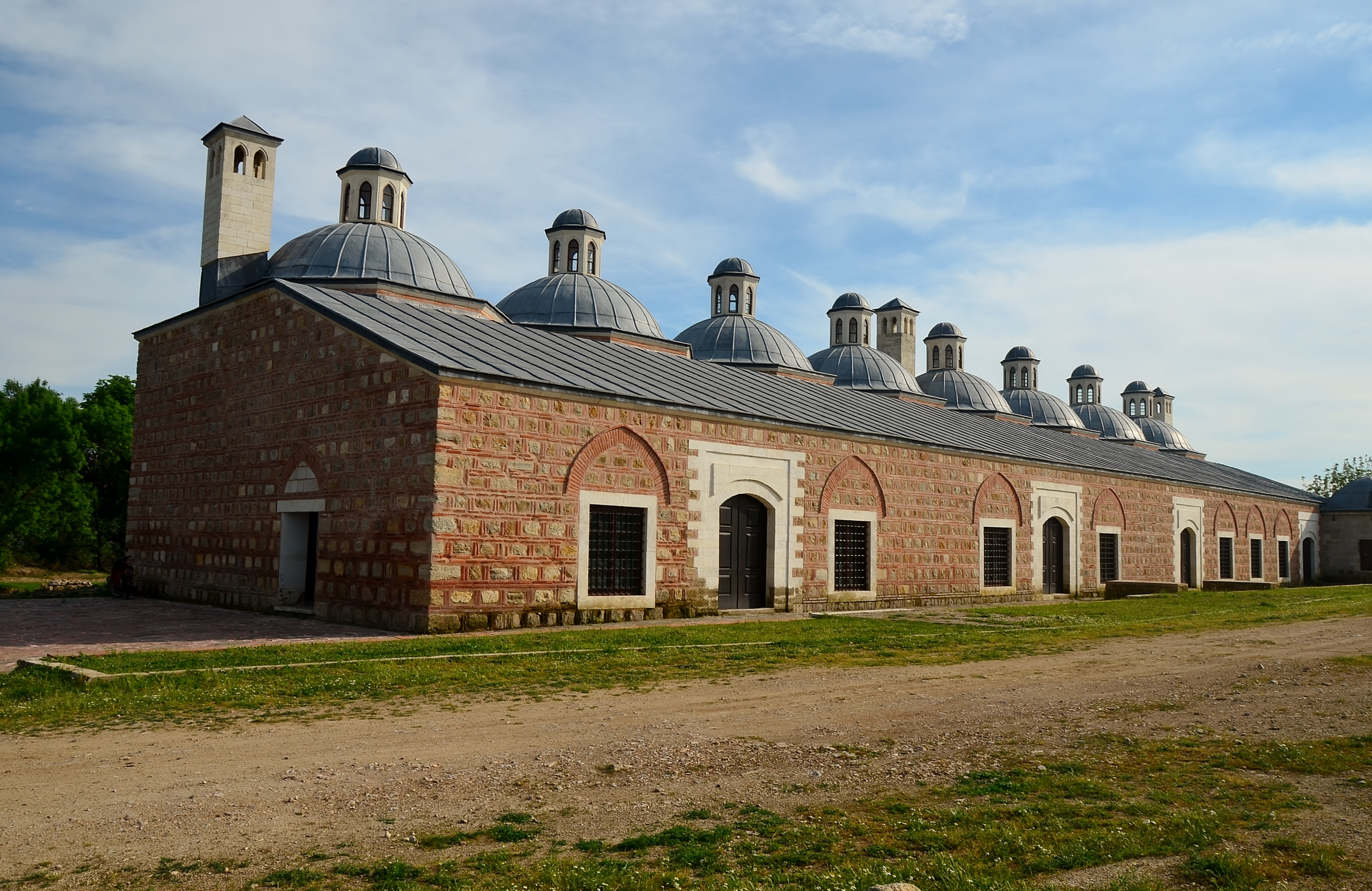 Palace kitchen of Edirne Palace, Turkey